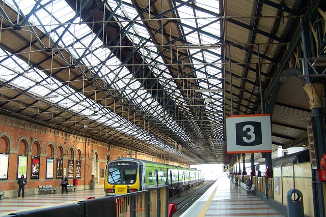 Dublin Connolly platform 3 Dublin Connolly, commonly called Connolly station (Irish: Stáisiún Uí Chonghaile), (previously named Amiens Street Station) is one of the main railway stations in Dublin, Ireland, and is a focal point in the Irish route network.